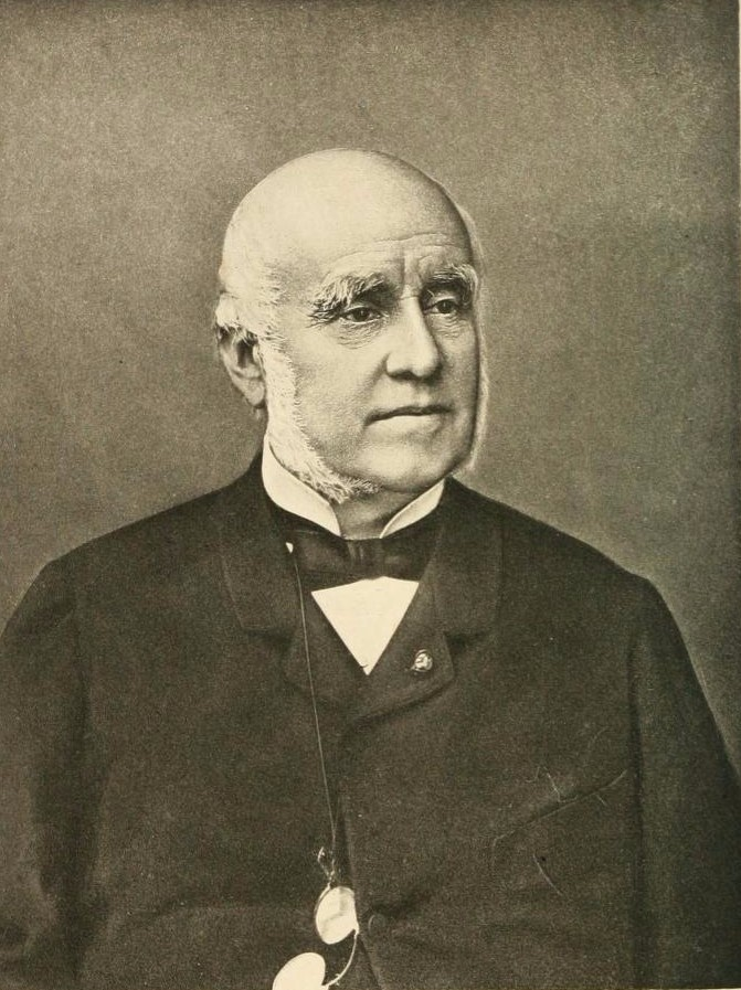 Portrait of Edward Charles Blount (1809–1905), English banker in Paris.